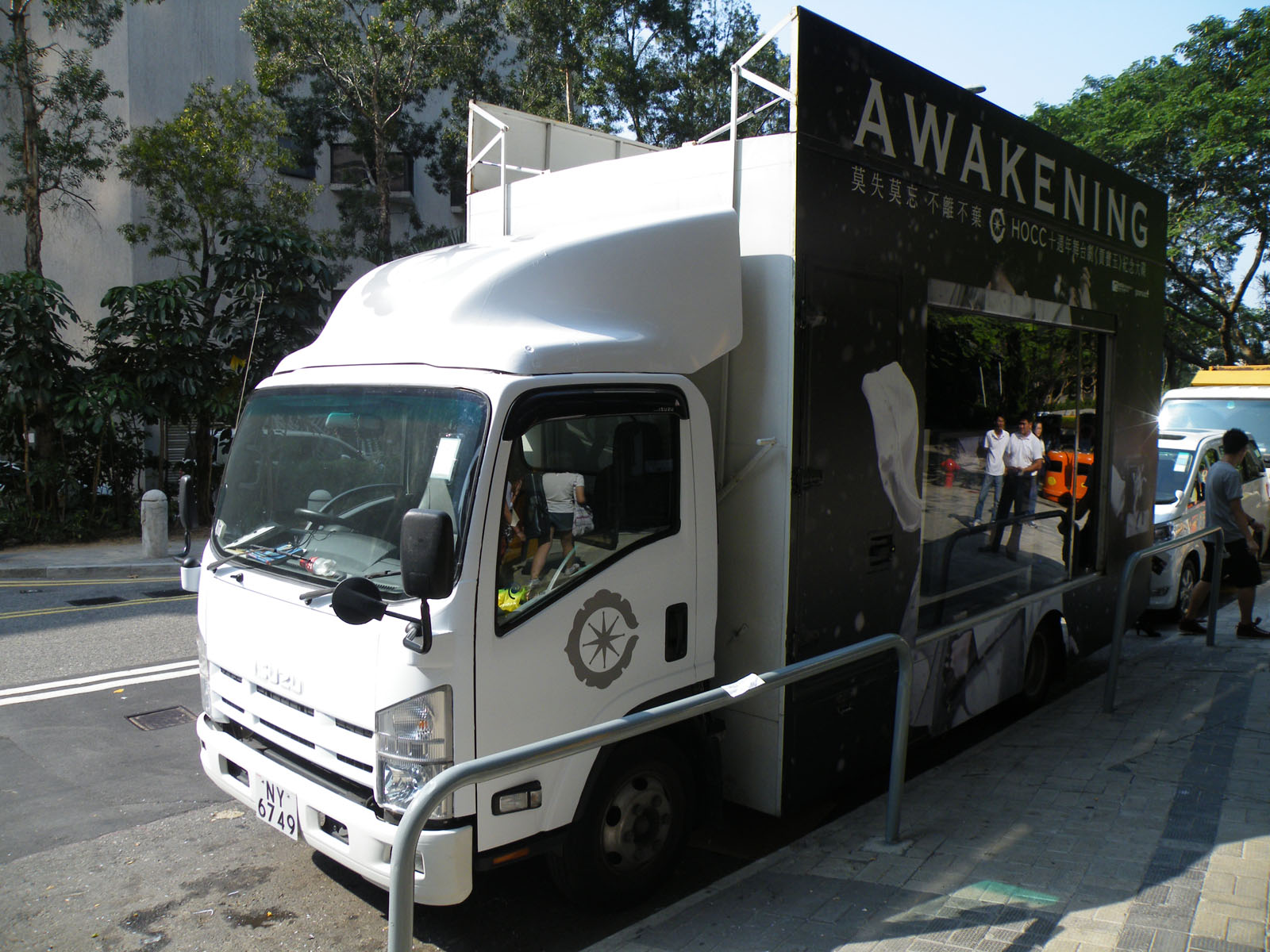 Promotion Car for "Awakening"